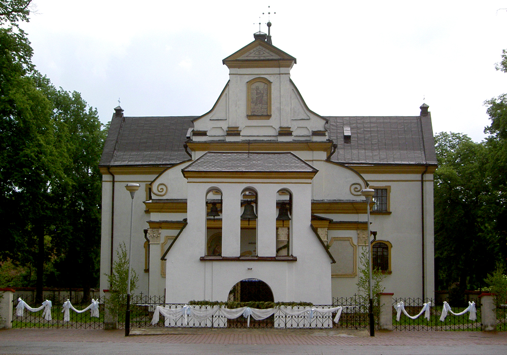 Saint John the Baptist church in Potok Górny, Poland